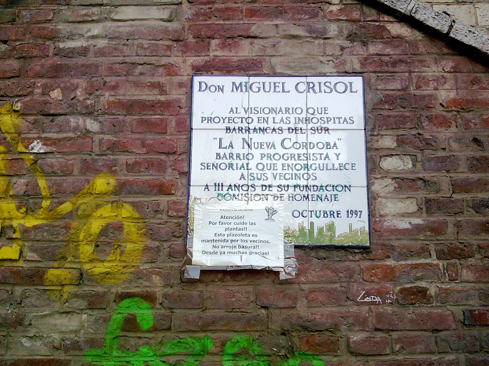 Plaque remembering 111 years of foundation (october 1997) of Nueva Cordoba neighborhood. Located on Independence street and Hilario Fernandez street. Cordoba, Argentina.